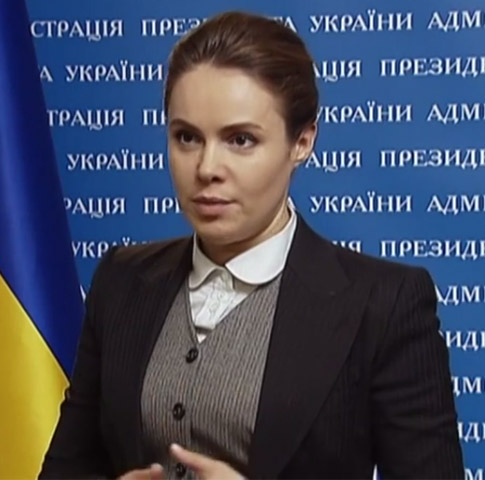 Natalia Korolevska, Ukrainian politician, Minister of Social Policy of Ukraine